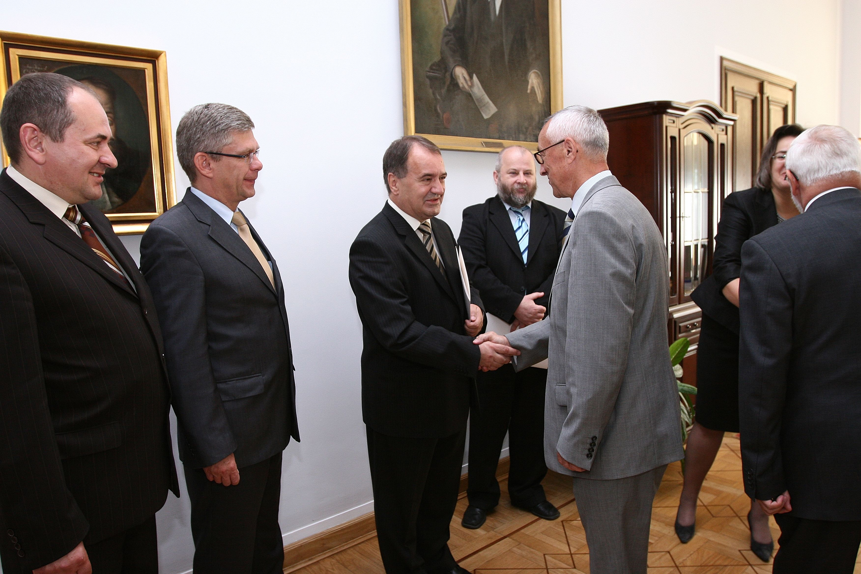 Ceremony of giving the certificate of election to senator Stanisław Zając